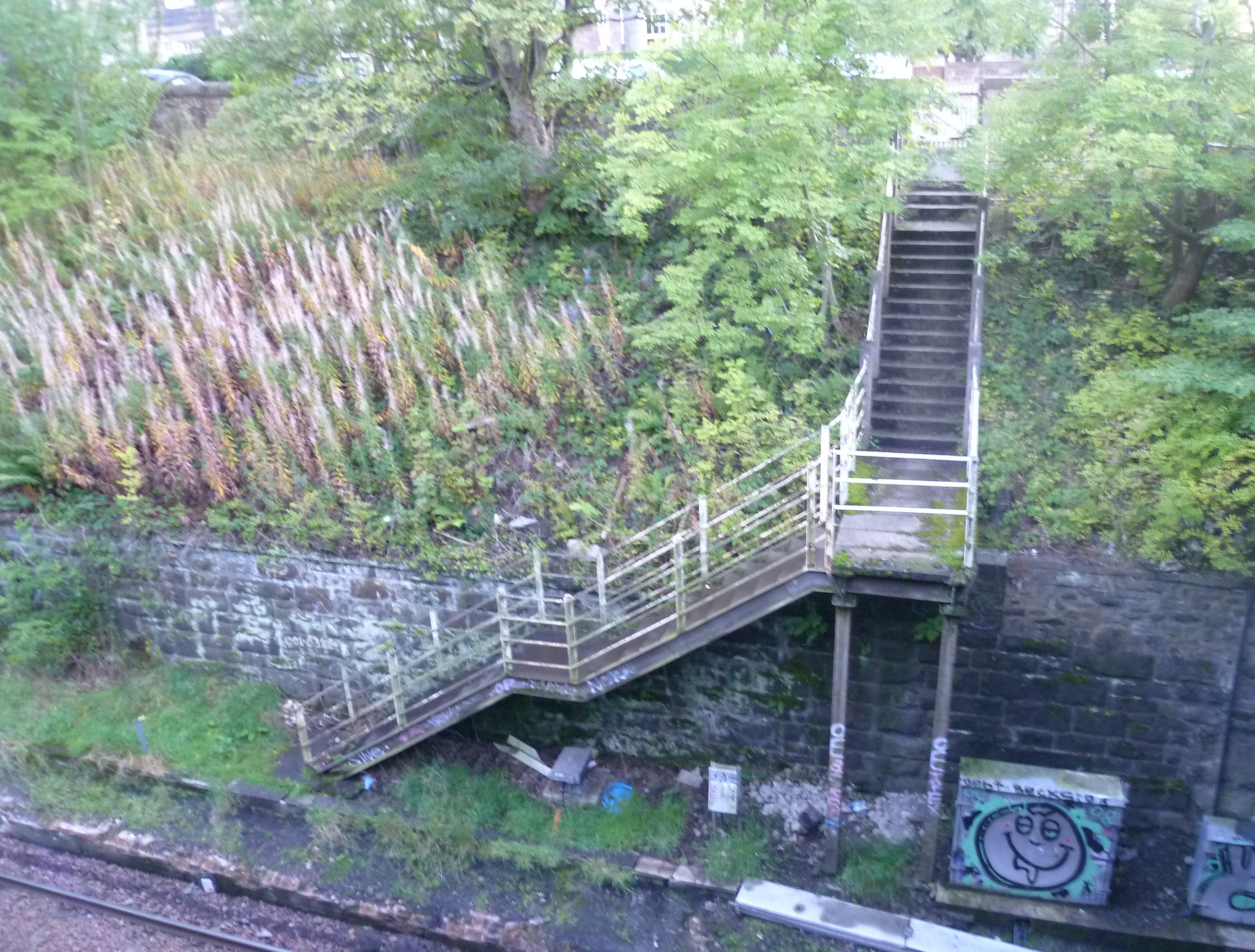 Steps down to the platform of Craiglockhart Station on the former Edinburgh South Suburban Railway line.